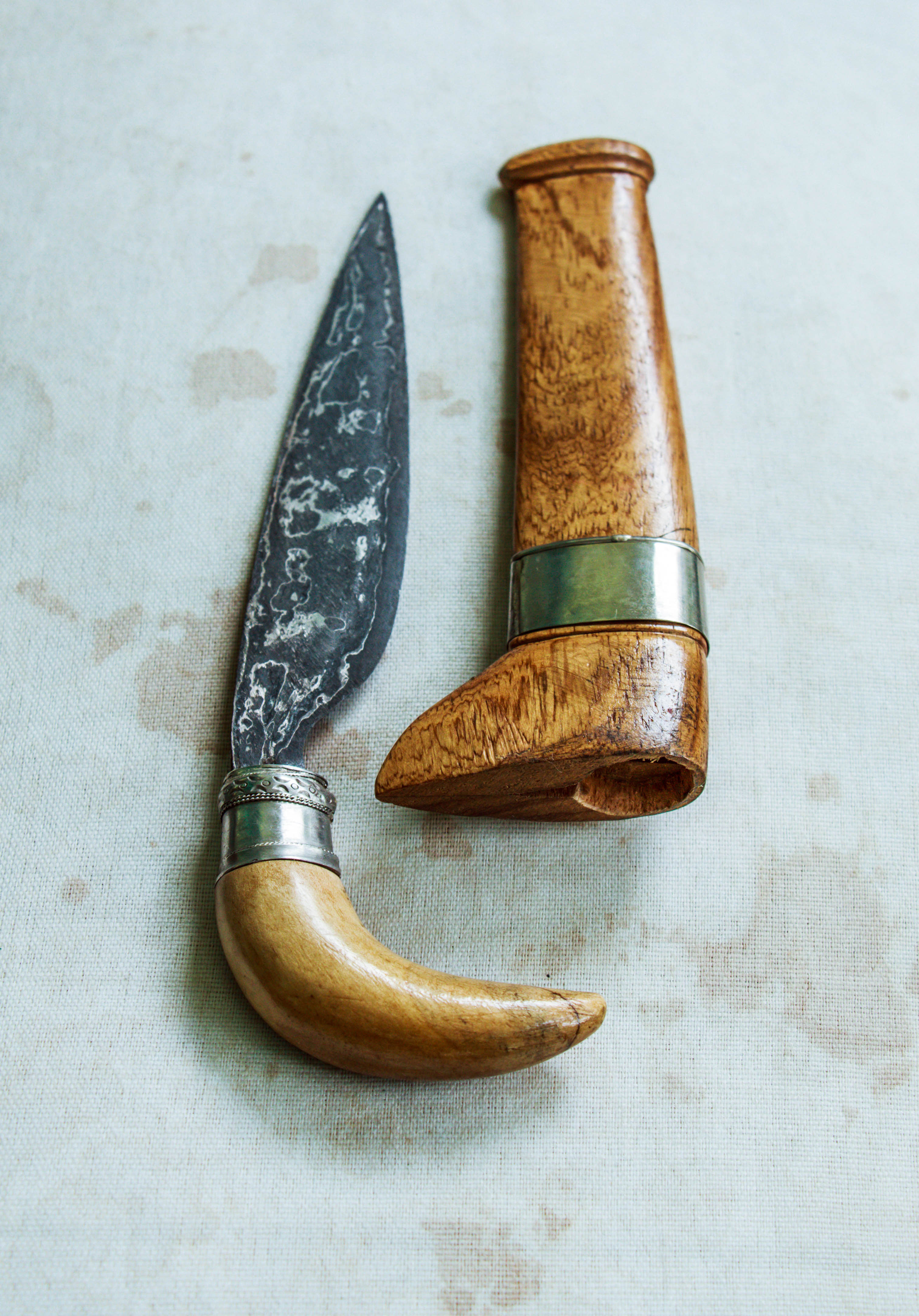 Badik, Makassar Weapon category